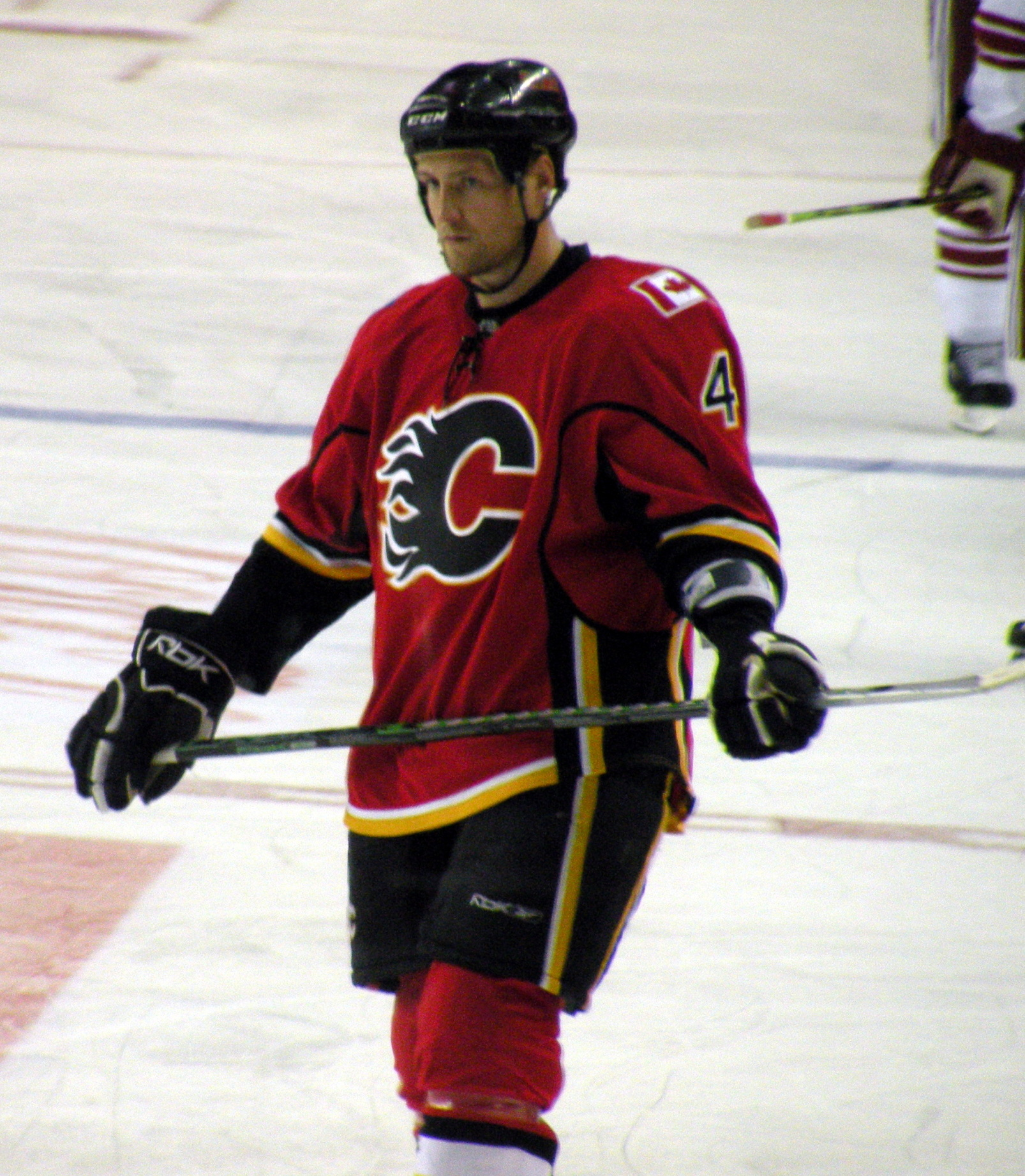 Calgary Flames defenceman Jim Vandermeer during warm-up prior to a pre-season game against the Phoenix Coyotes.